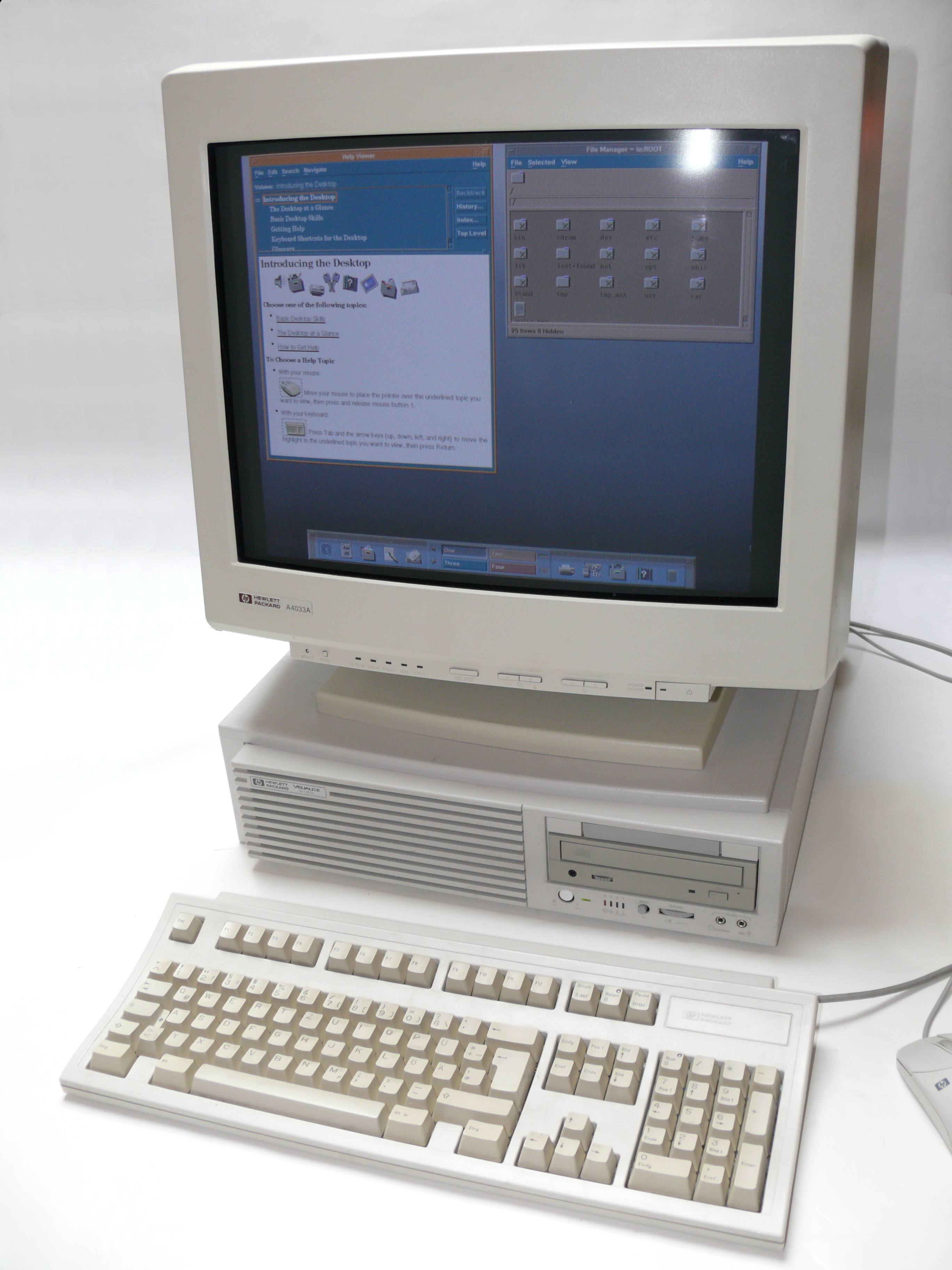 Hewlett-Packard HP9000 UNIX Workstation, Model B180L, HP9000-B180L, PA-RISC 7300LC CPU, 32 Bit, 180 MHz, 768 MByte RAM, 18 GByte SCSI Disk Drive, SCSI CDROM-Drive, Visualize 24 Graphics Adapter, PS2 Keyboard and Mouse, SCSI / SCSI-Wide Operating System HP-UX 10.20 / CDE, HP A4033A 20" CRT color display